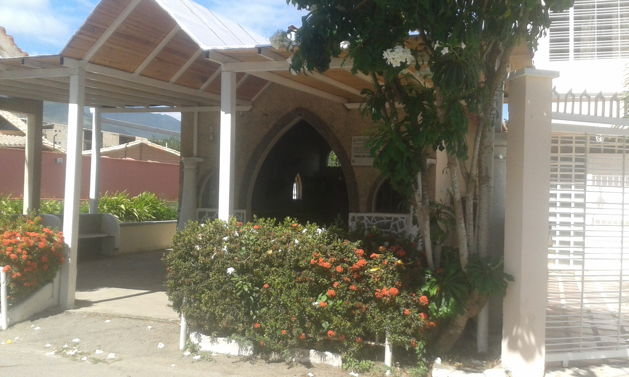 Iglesia de san Onefre, Isla de Margarita, Nueva Esparta, Venezuela